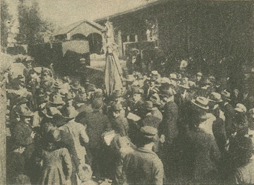 People at the Viseu Railway Station, waiting for the arrival of the guests for a congress of the business employees. This image was published on the Ilustração Portuguesa magazine No. 814, of the 24th September 1921, and scanned by the Hemeroteca Municipal de Lisboa.